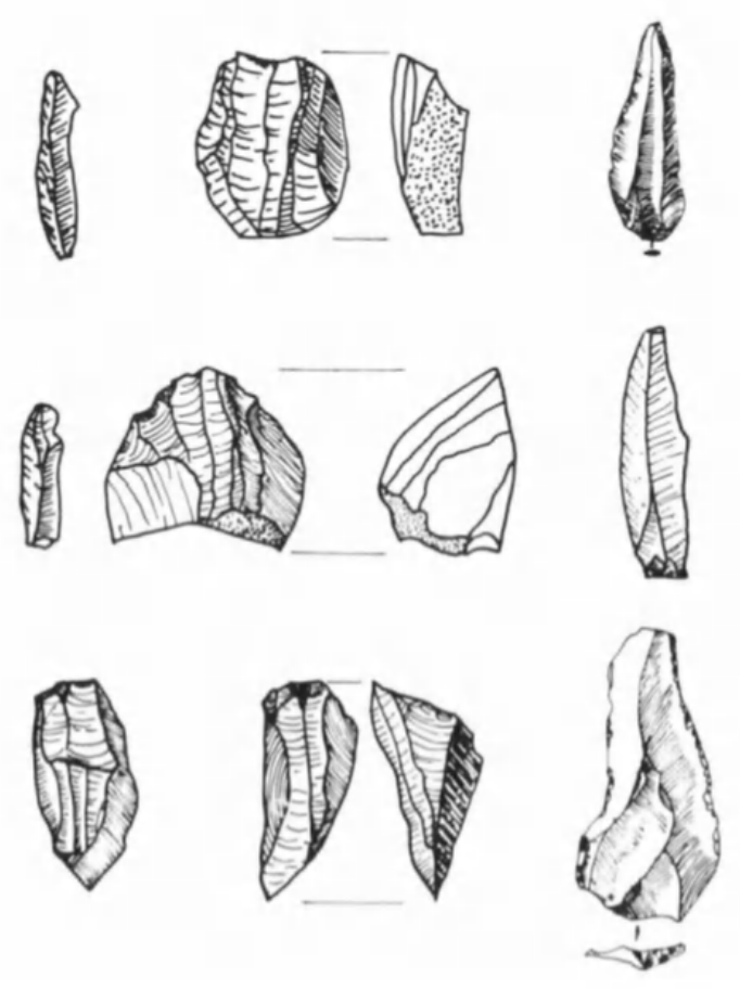 Late Palaeolithic tools from Kara-Kamar, Afghanistan: bladelets, bladelet-cores and blades.